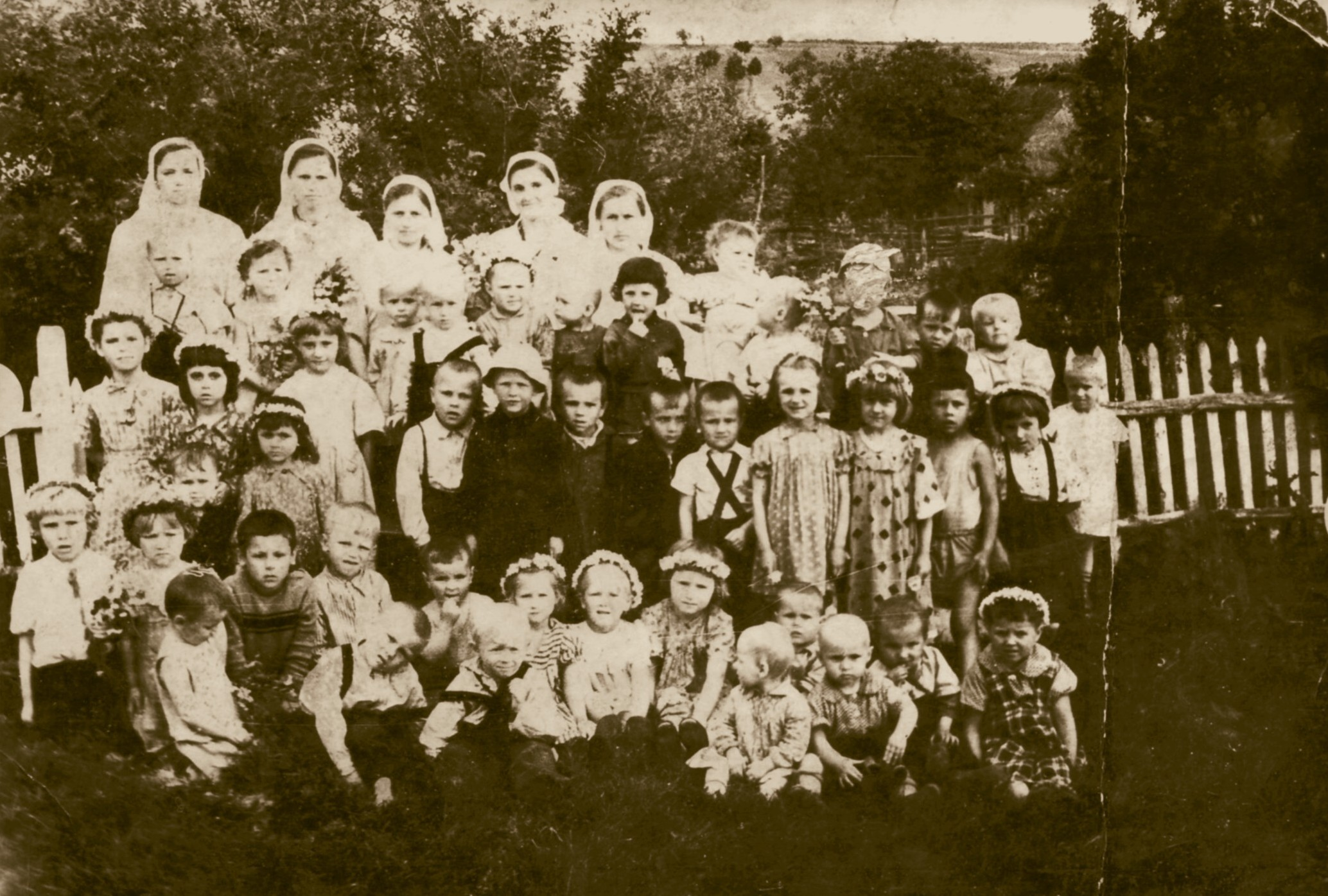 колектив дитсаду у Сніжках, 1960-ті роки